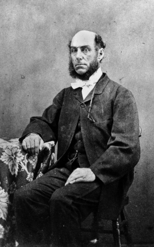 Member of the Queensland Legislative Assembly, Member of the New South Wales Legislative Assembly, owner of Cribb & Foote department store